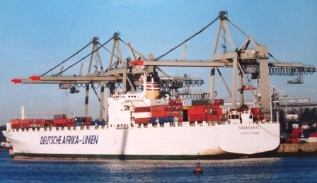 The Transvaal a third generation container ship. The vessel with IMO number 7422192 was built in 1978 as SA Winterberg.